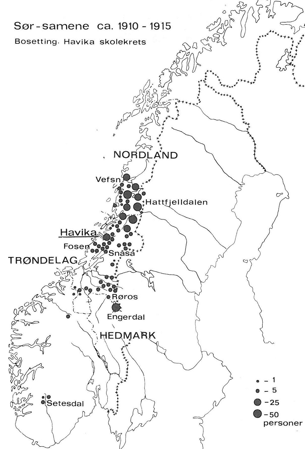 Southern Sami population in Norway anno 1910, mostly based on census